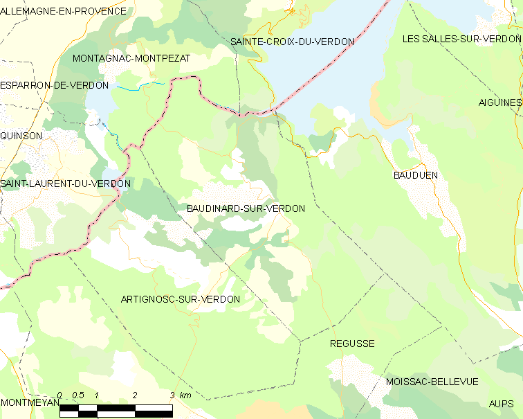 Map of French municipality Baudinard-sur-Verdon